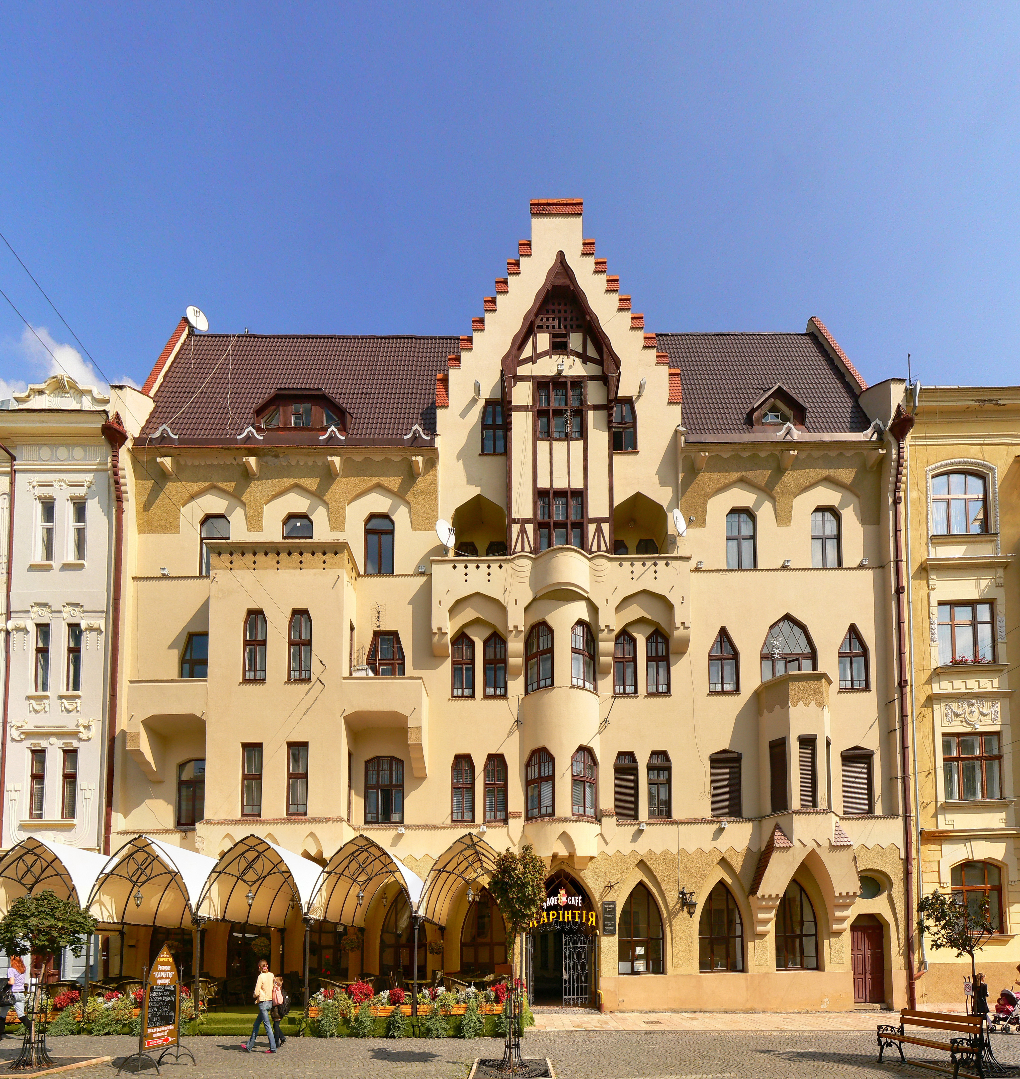 Німецький дім